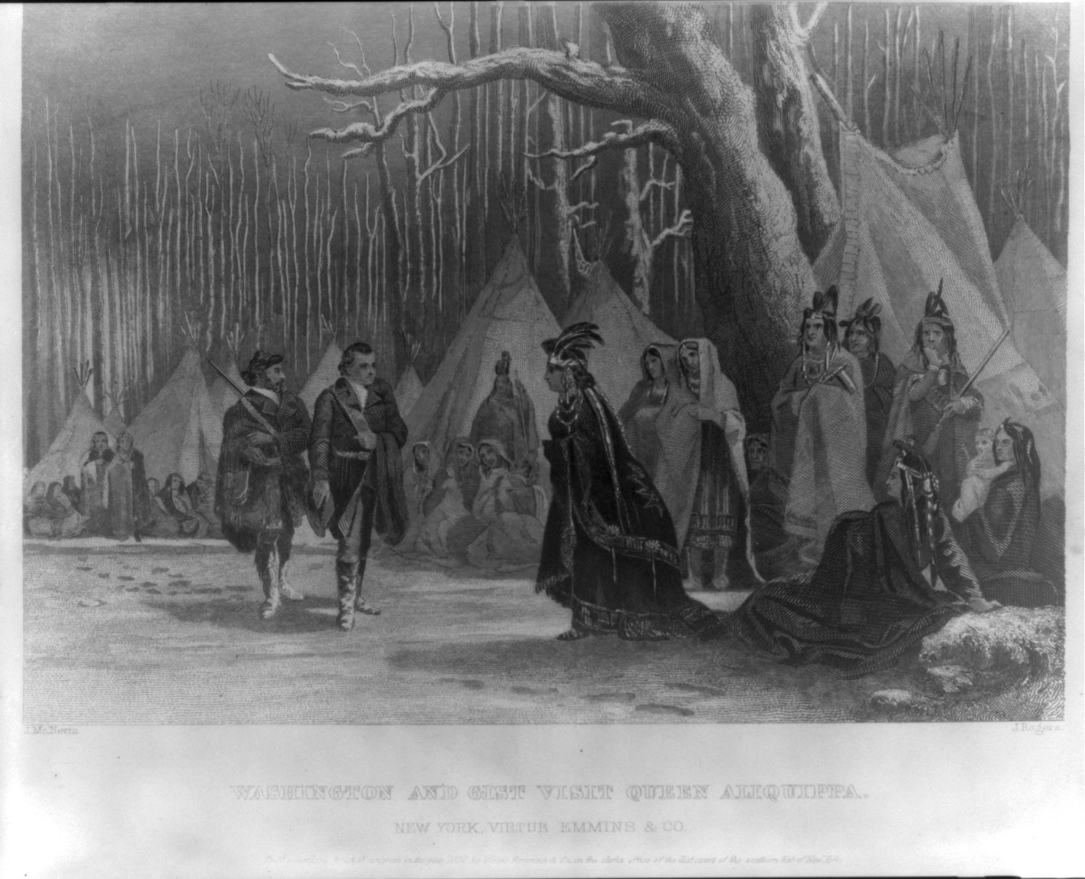 Title: Washington and Gist visit Queen Aliquippa [1754] Abstract/medium: 1 print : engraving.